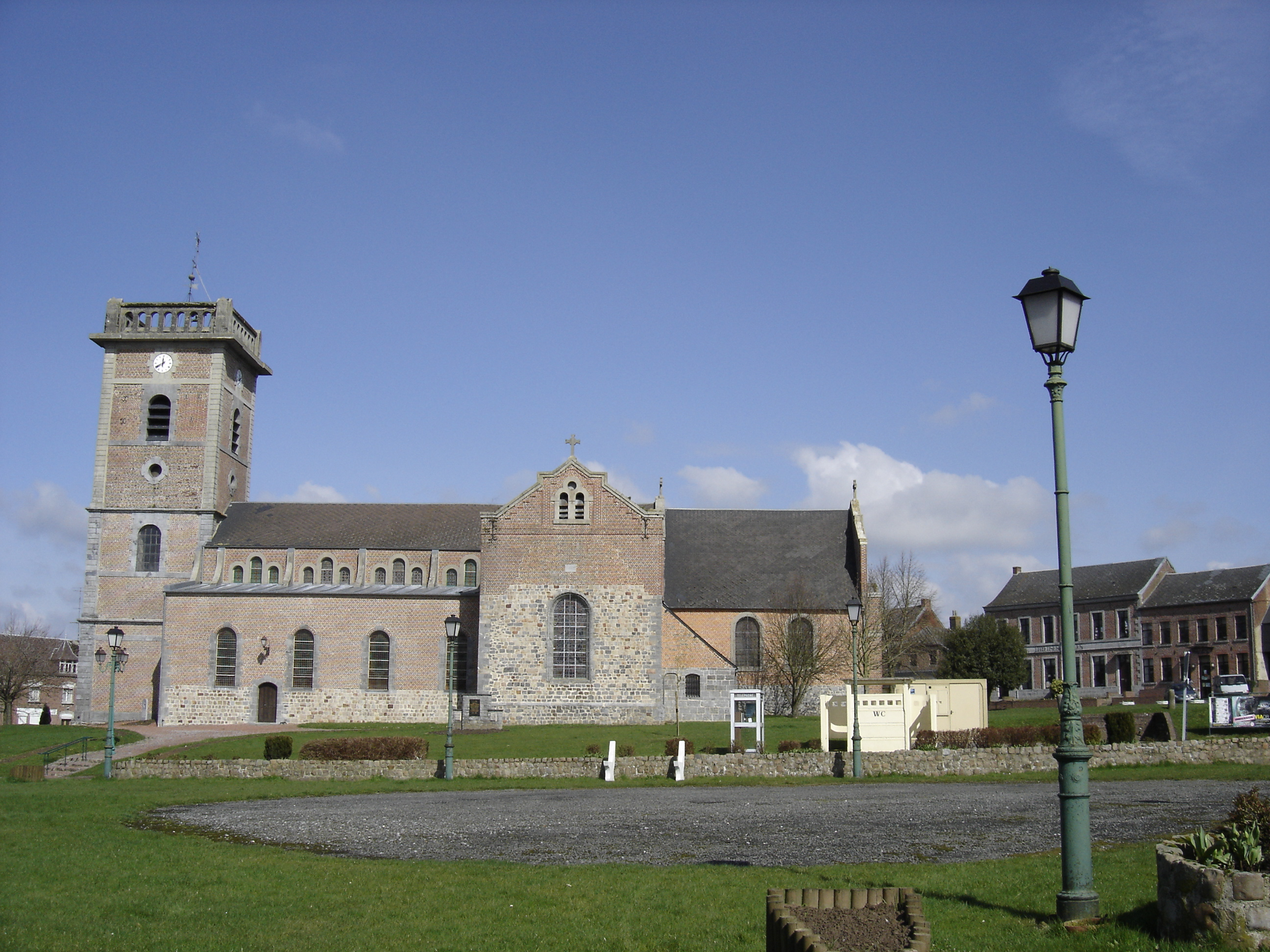 Prisches - Center of the village